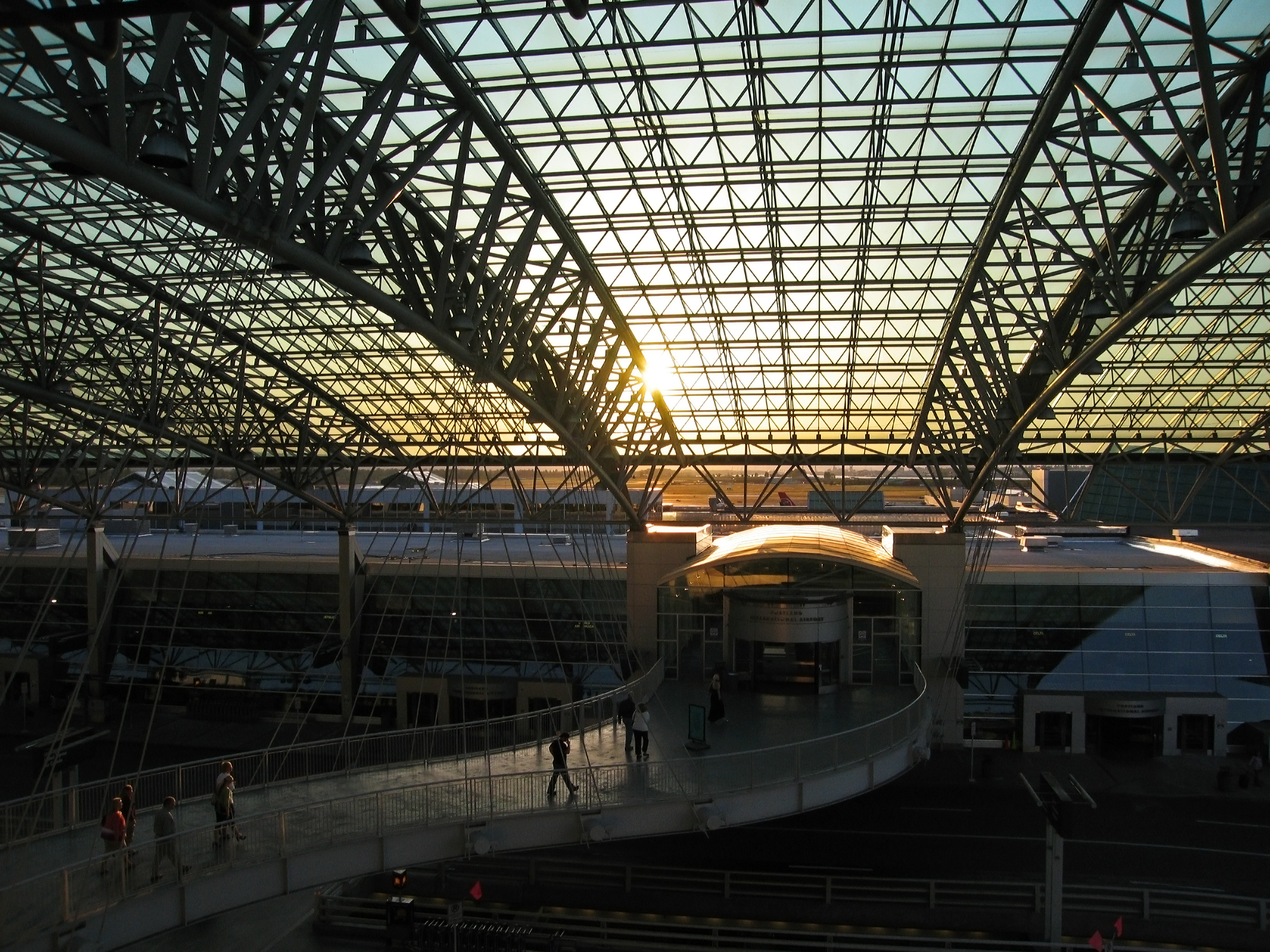 The entry to the Portland International Airport